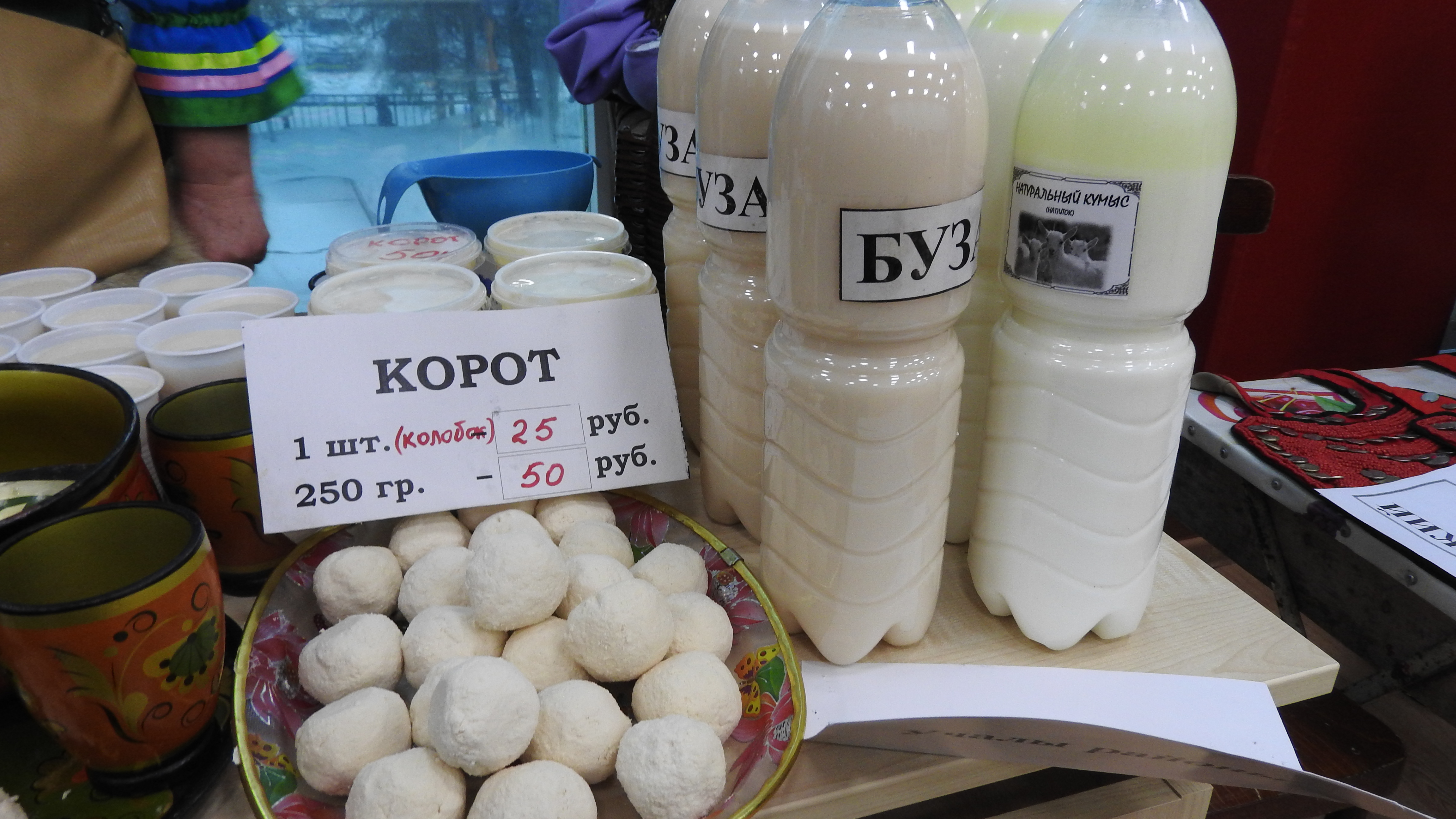 IV Congress of Bashkir Tabyn. Ufa. 25 Feb 2017.